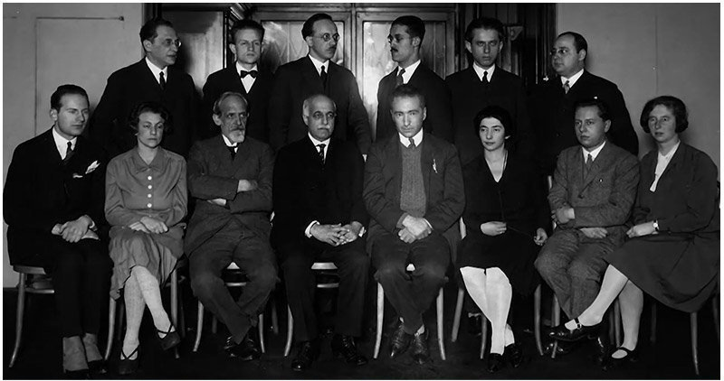 Official portrait of the staff of the Vienna Psychoanalytic Ambulatorium, 1922. Wilhelm Reich is seated fifth from the left.From left to right (standing): Ernst Paul Hoffmann, Ludwig Eidelberg, Edward Bibring, Parker (?), Stjepan Betlheim, Edmund Bergler; and (seated) Eduard Kronengold, Anny Angel-Katan, Ludwig Jekels, Eduard Hitschmann (director), Wilhelm Reich (assistant director), Grete Bibring-Lehner, Richard Sterba, Annie Reich. For the names, see Freud's Free Clinics: Psychoanalysis & Social Justice, 1918-1938 by Elizabeth Ann Danto, 2007, p. 94.